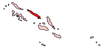 Map of the Solomon Islands showing Isabel province. Made by User:Golbez.